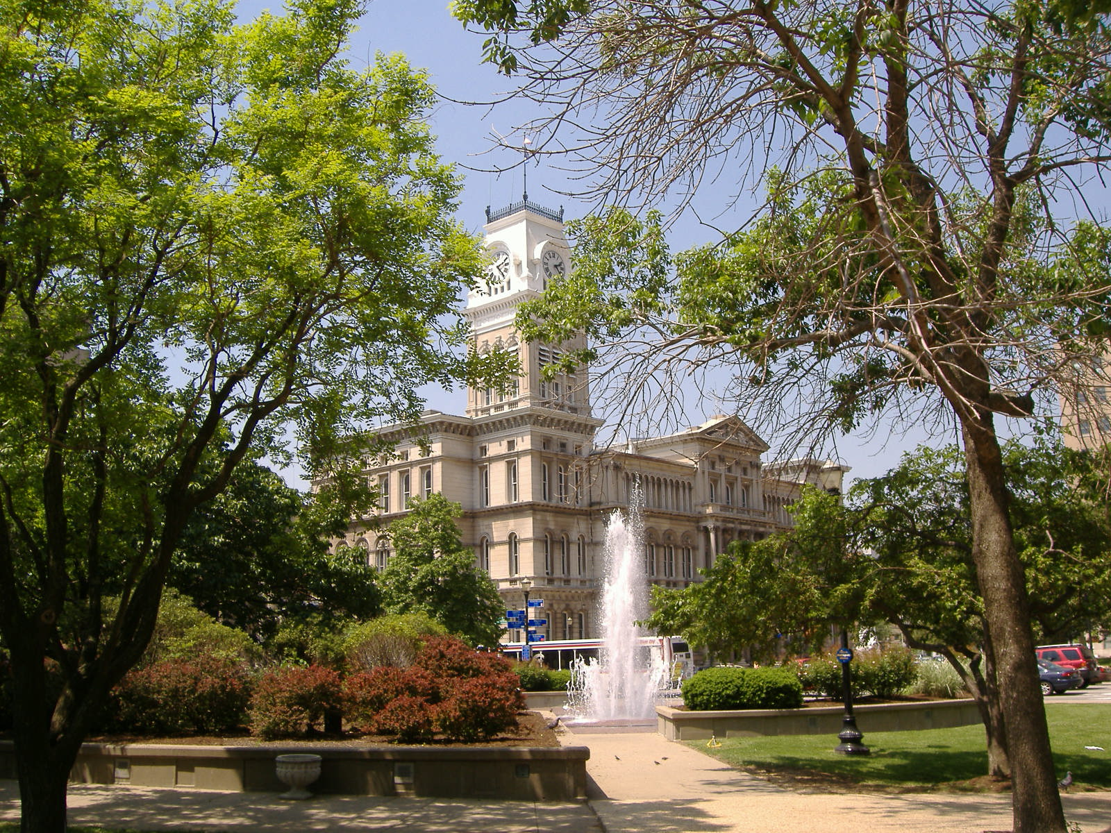 Picture of Louisville City Hall, in Louisville, Kentucky, which is on the National Register of Historic Places.